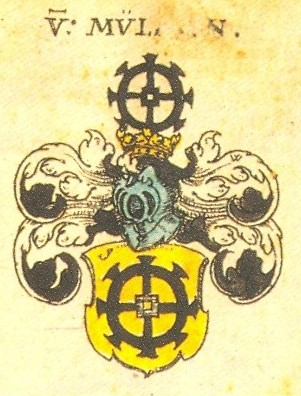 Mülinen Coat of arms